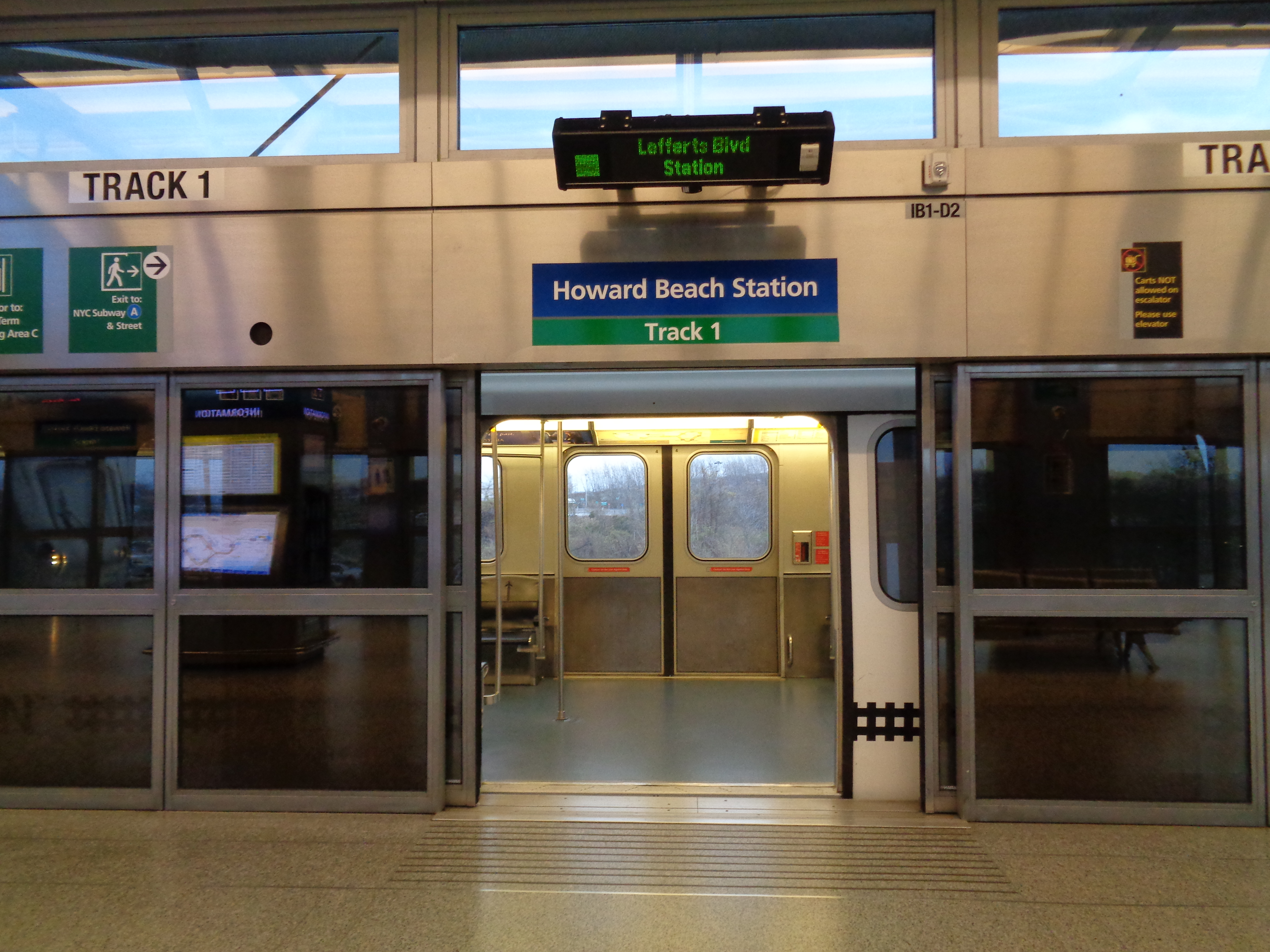 The AirTrain JFK platform of the Howard Beach – JFK Airport station in Howard Beach, Queens. Looking at track 1 on the south side of the station, with its platform screen doors opened and a train boarding. Also notice the arrival board similar to the New York City Subway's PA/CIS system.